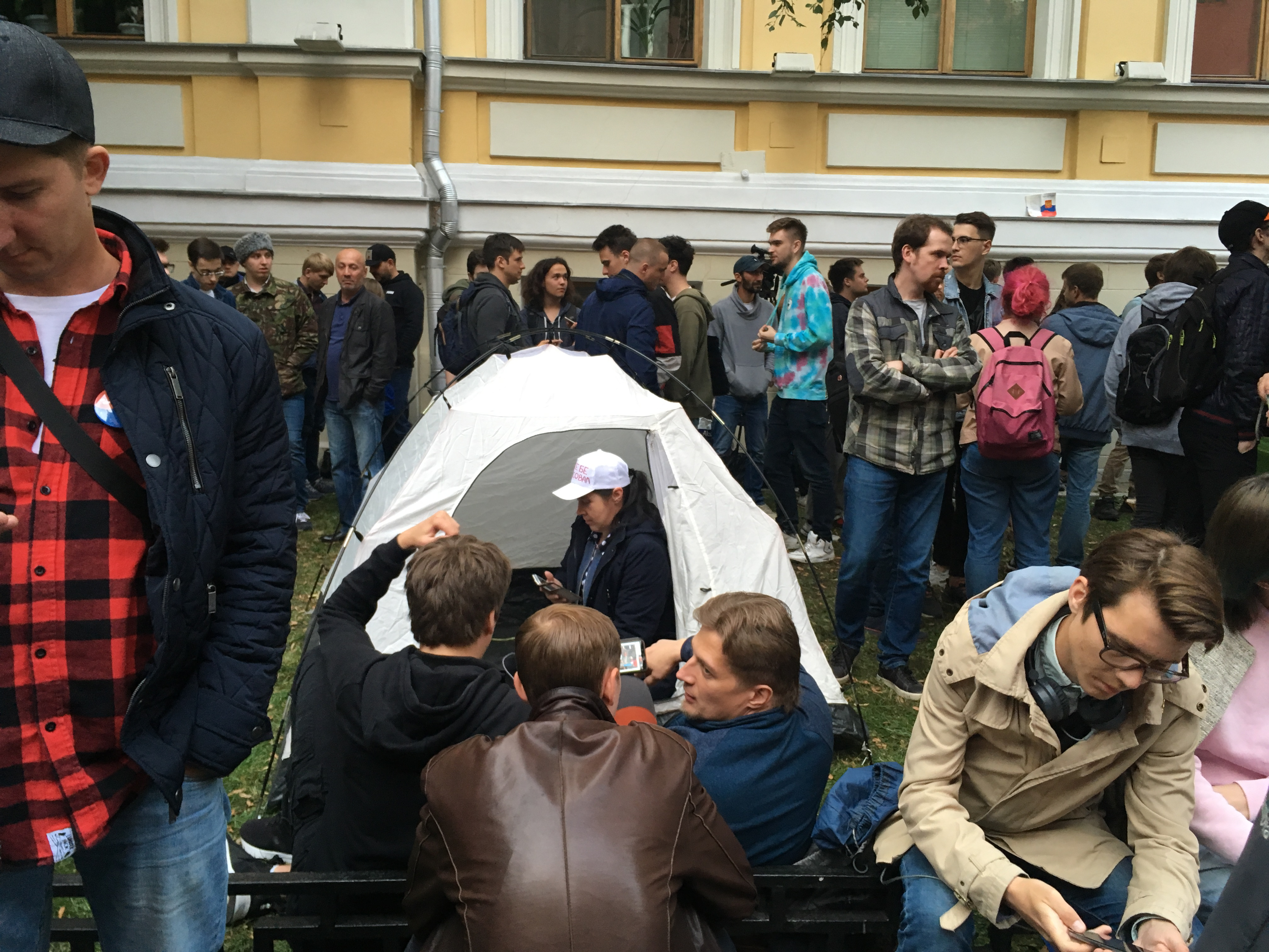 Rally for independent candidates in Moscow City Duma election (2019-07-14)